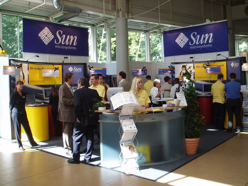 Sun Microsystem's stand at the Linuxtag 2004, Karlsruhe